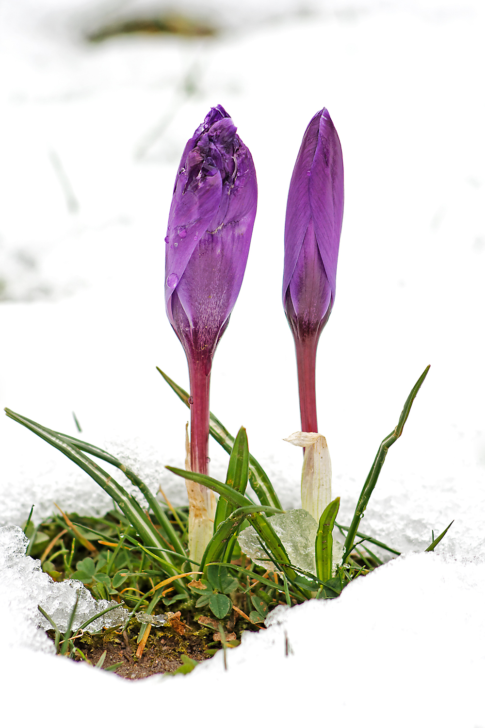 two crocuses in snow